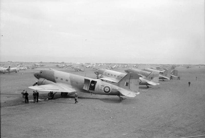 Royal Air Force Douglas Dakota C.IIIs of No. 267 Squadron RAF lined up at Bari, Italy. Aircraft nearest the camera are (front to rear): KG496 'AI', FL589 and FD957.